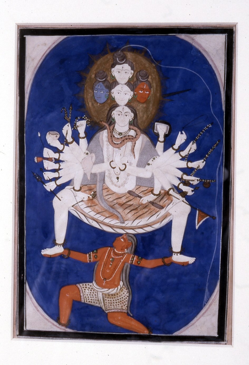 Portrayed in an unusual dancing pose, the cosmic Shiva is shown with five heads and eighteen arms that bear weapons and ritual instruments. Shiva has a hermit's piled-up hair on his upper heads, in front of which a crescent moon appears. The wavy white line at the right is the Ganges River, which descends from Shiva's hair when he is residing in his mountain hideaway.